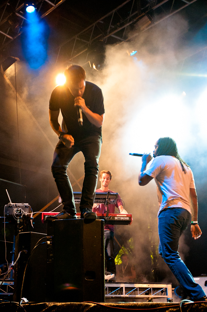 The Streets performing live at Parklife, Sydney 2011